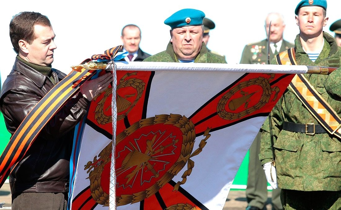 Dmitry Medvedev decorated the 45th Separate Special Purpose Guards Regiment of the Air Assault Forces with the Order of Kutuzov, fixing the order and ribbon to the unit’s St George banner. Kubinka, Moscow Region. 4 April 2011.